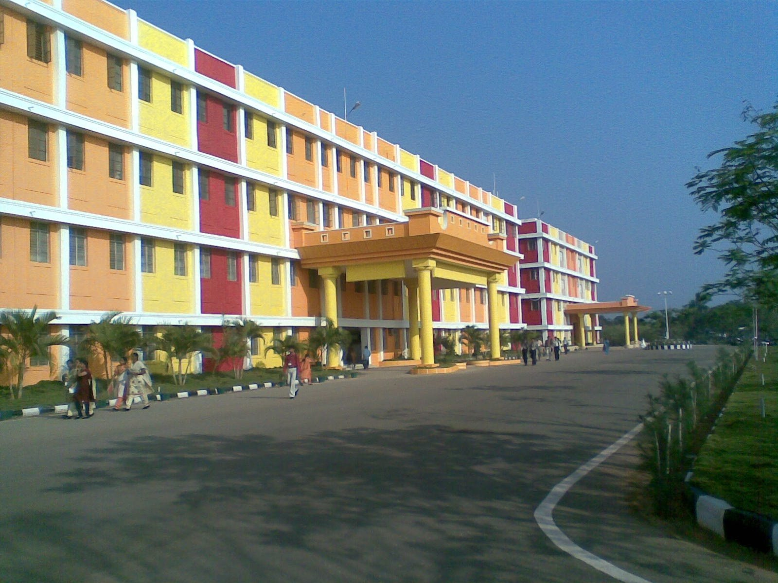 Narayana Engineering College, Nellore